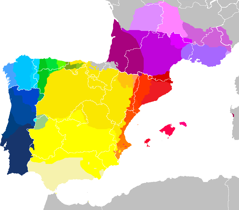 Iberian languages and their principle dialects on the Iberian Peninsula, south of France, the Balearic Islands, Ceuta, and Melilla